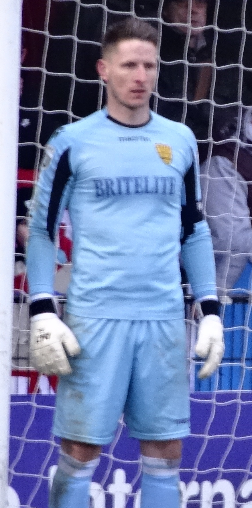 Lee Worgan playing for Maidstone United against York City at Bootham Crescent, York on 11 February 2017